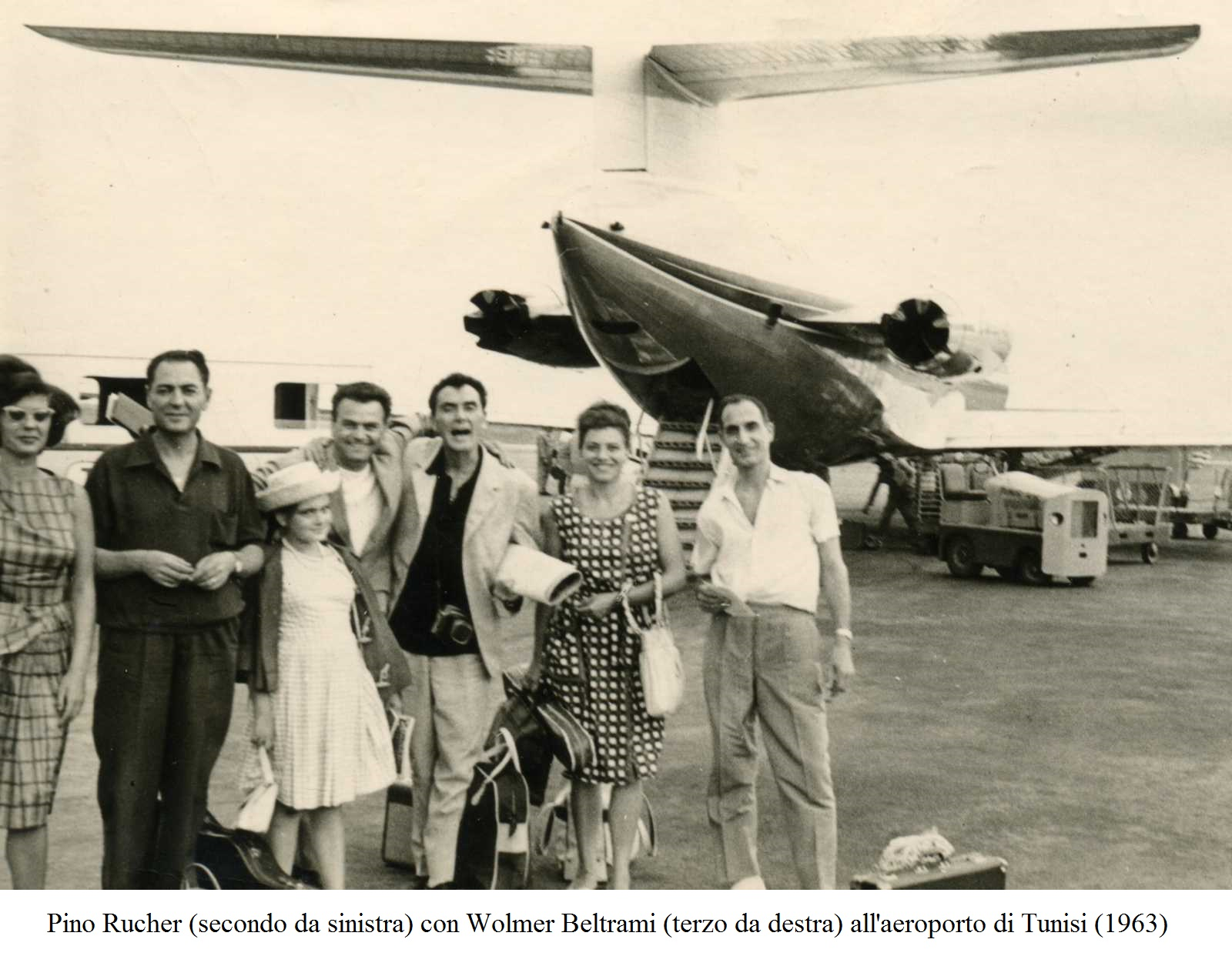 Guitarist Pino Rucher (second from left) with accordionist Wolmer Beltrami (third from right) at the Tunis Airport (1963). Alfio Galigani, saxophonist, clarinetist and flutist, is first from right. Trumpeter Pino Saracino is fourth from right.